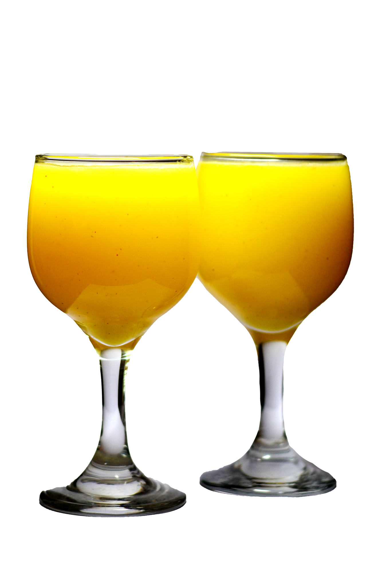 Pineapple Juice